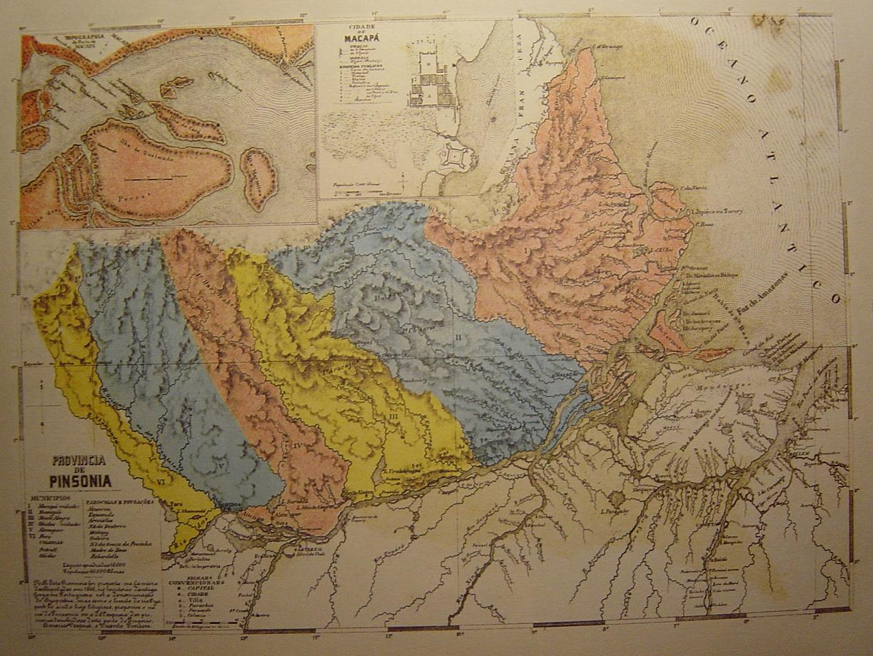 Location of the Province of Pinsônia, map of the geographer Cândido Mendes, 1868.